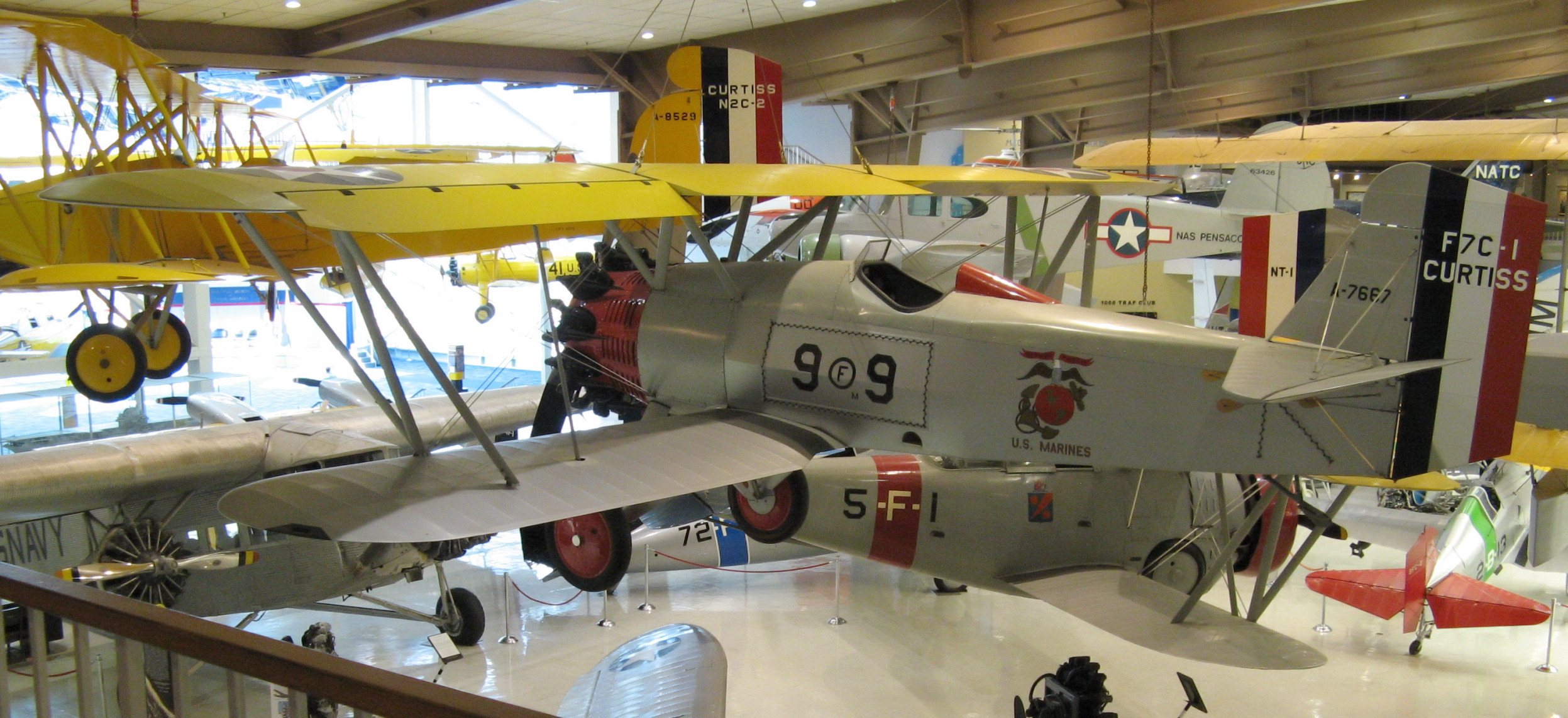 Curtiss 43 / F7C-1 Seahawk, Naval Aviation Museum, Pensacola, Florida